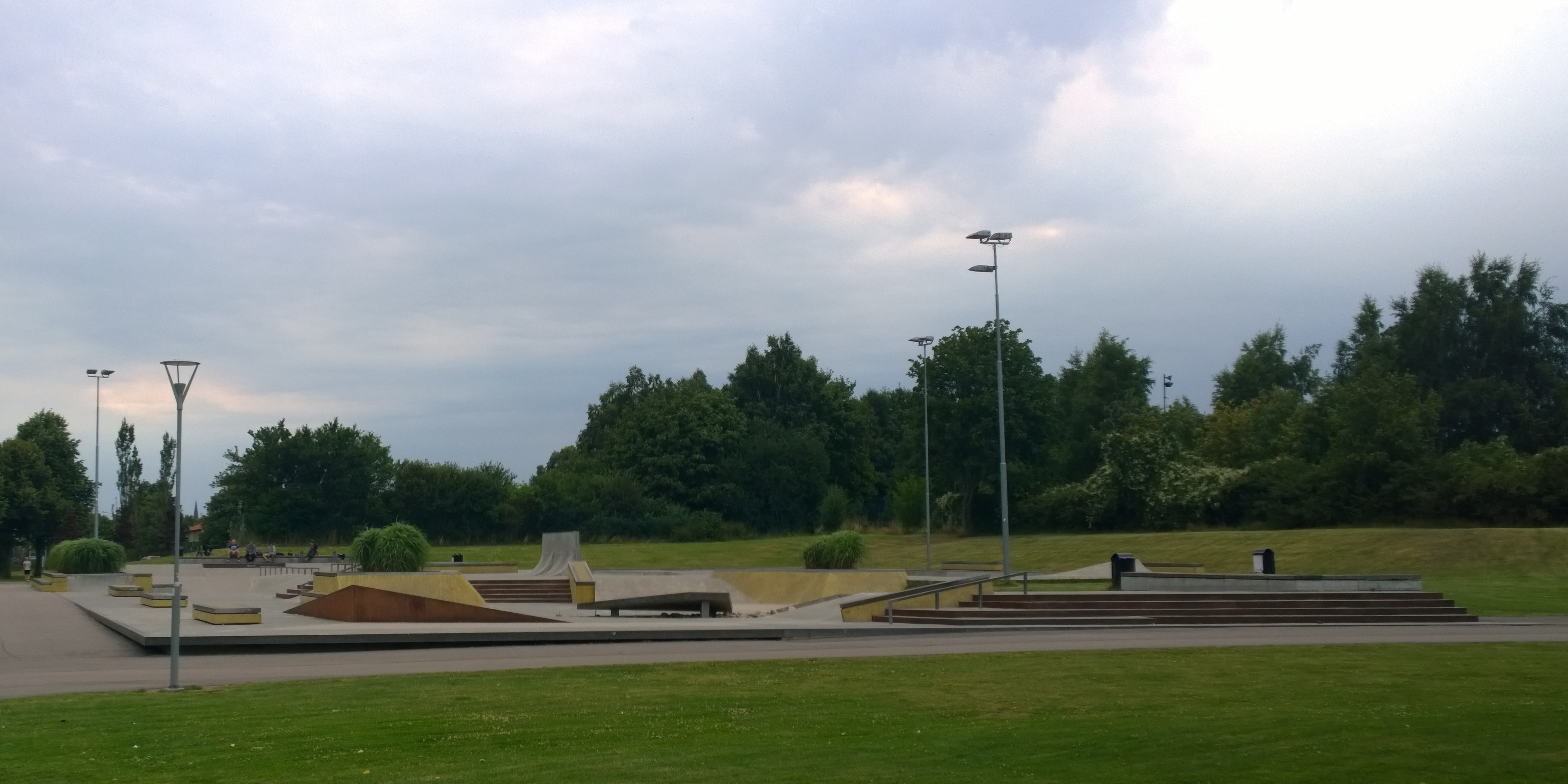 Halmstad Arena Skatepark.